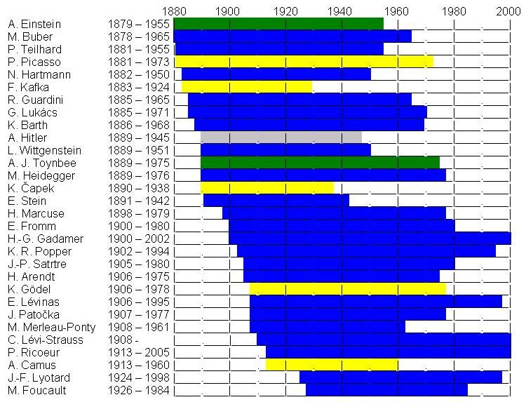 chronology table of philosophy around 1940.)